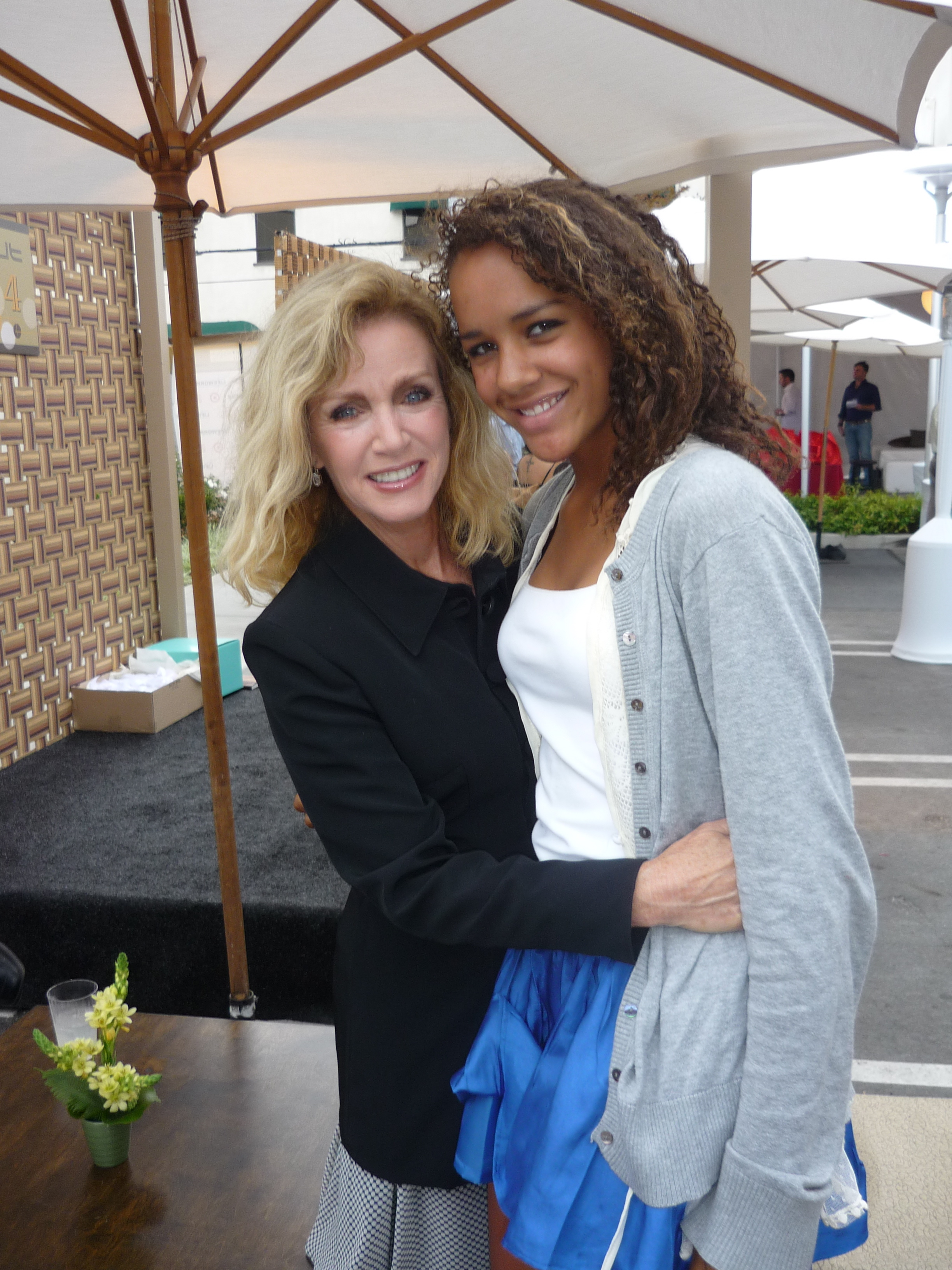 Donna Mills and daughter Chloe.